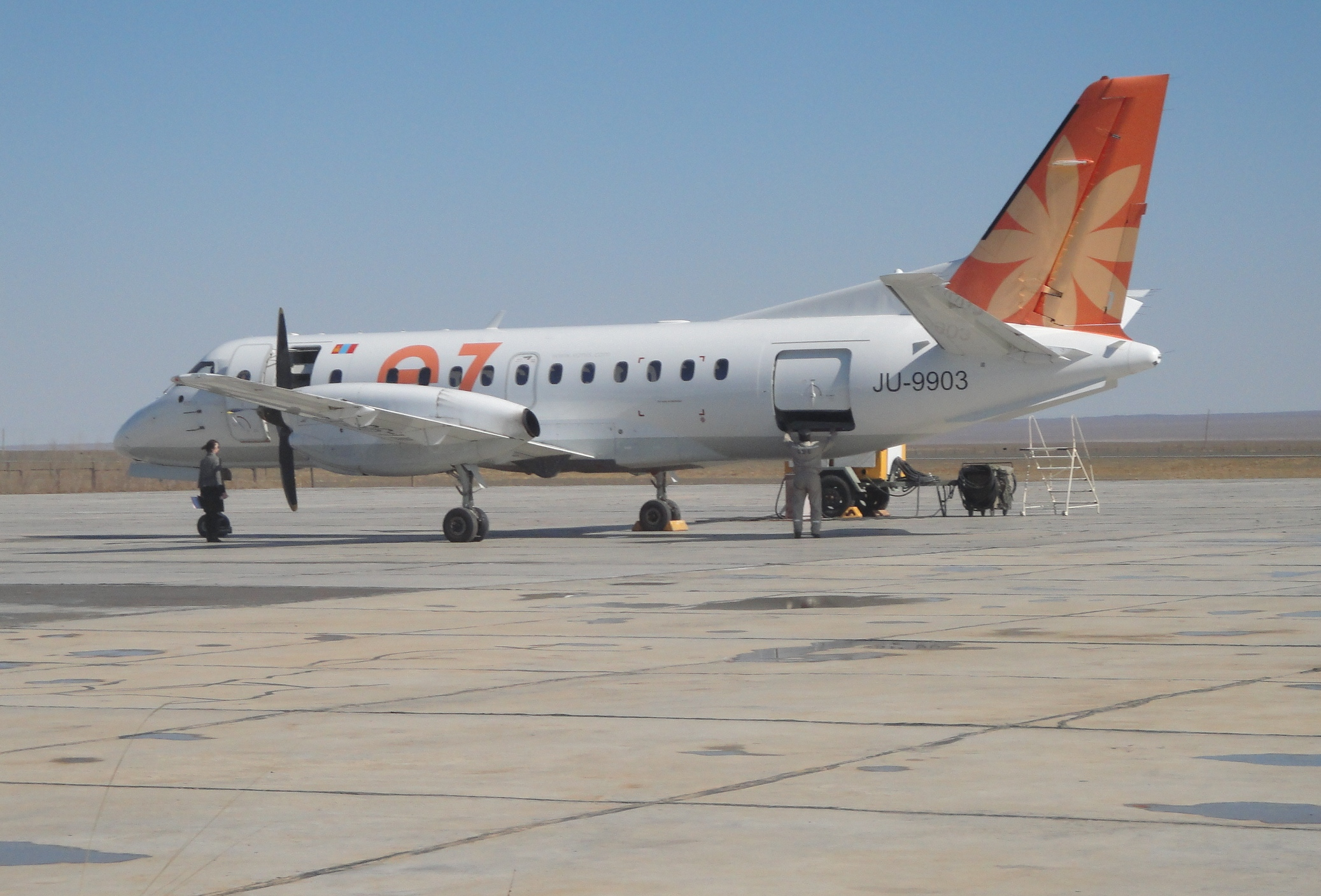 Eznis Airways flight at Dalanzadgad Airport.